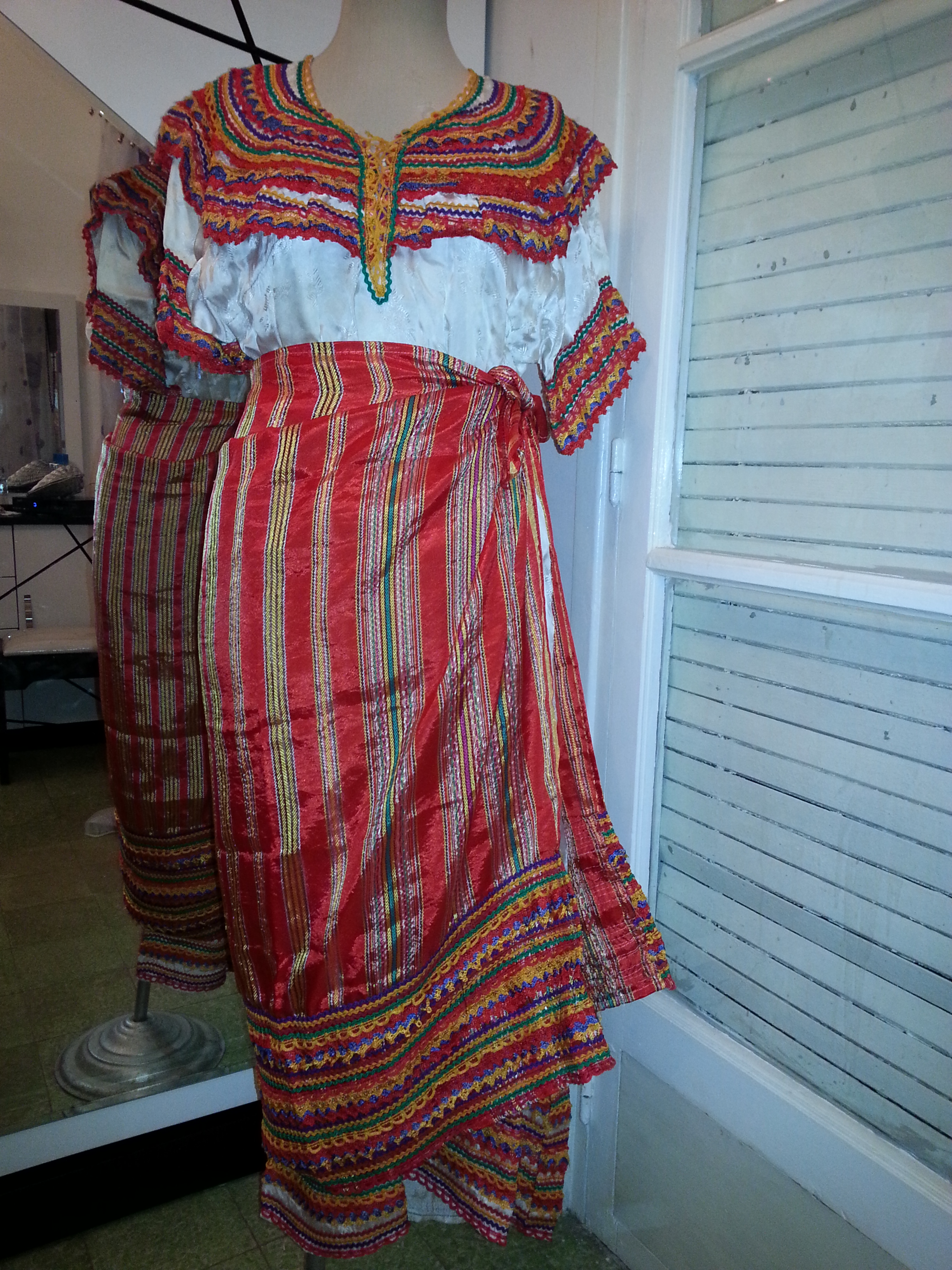 This is an image of Cultural Fashion or Adornment from Algeria